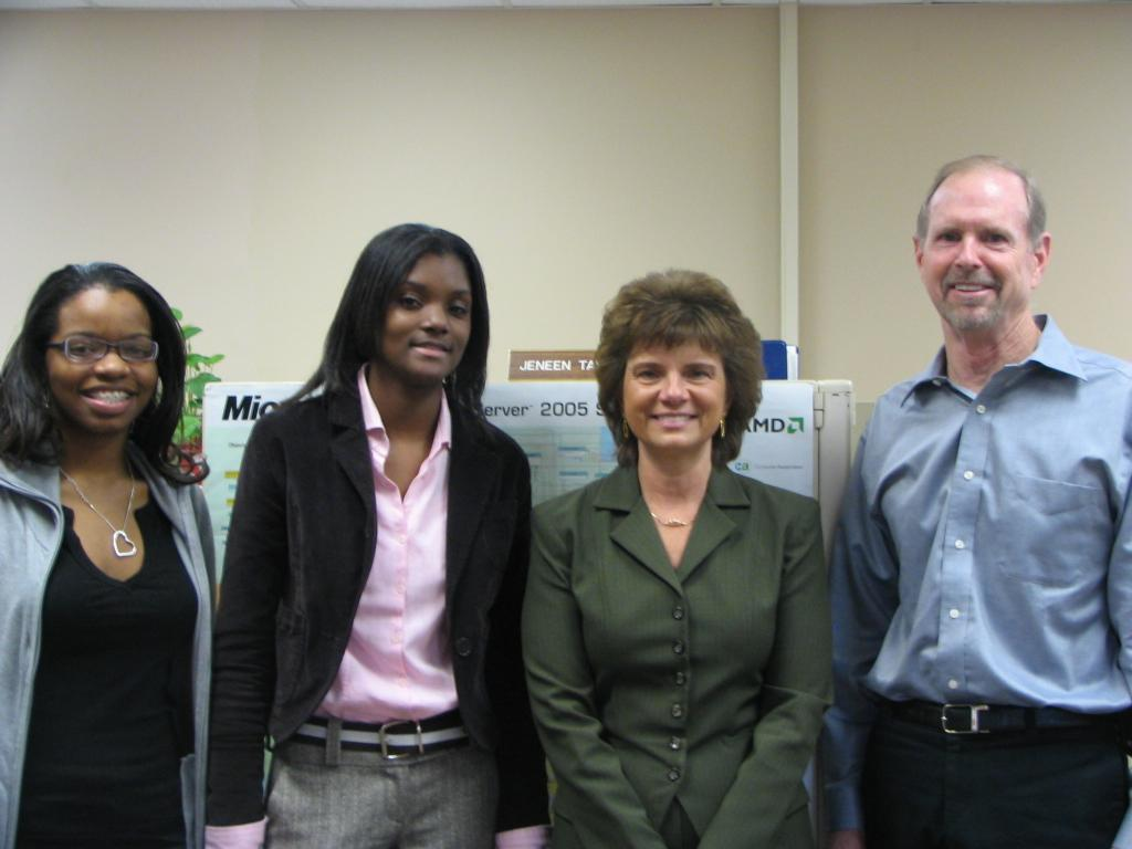 Four unidentified people standing; 3 women and one man